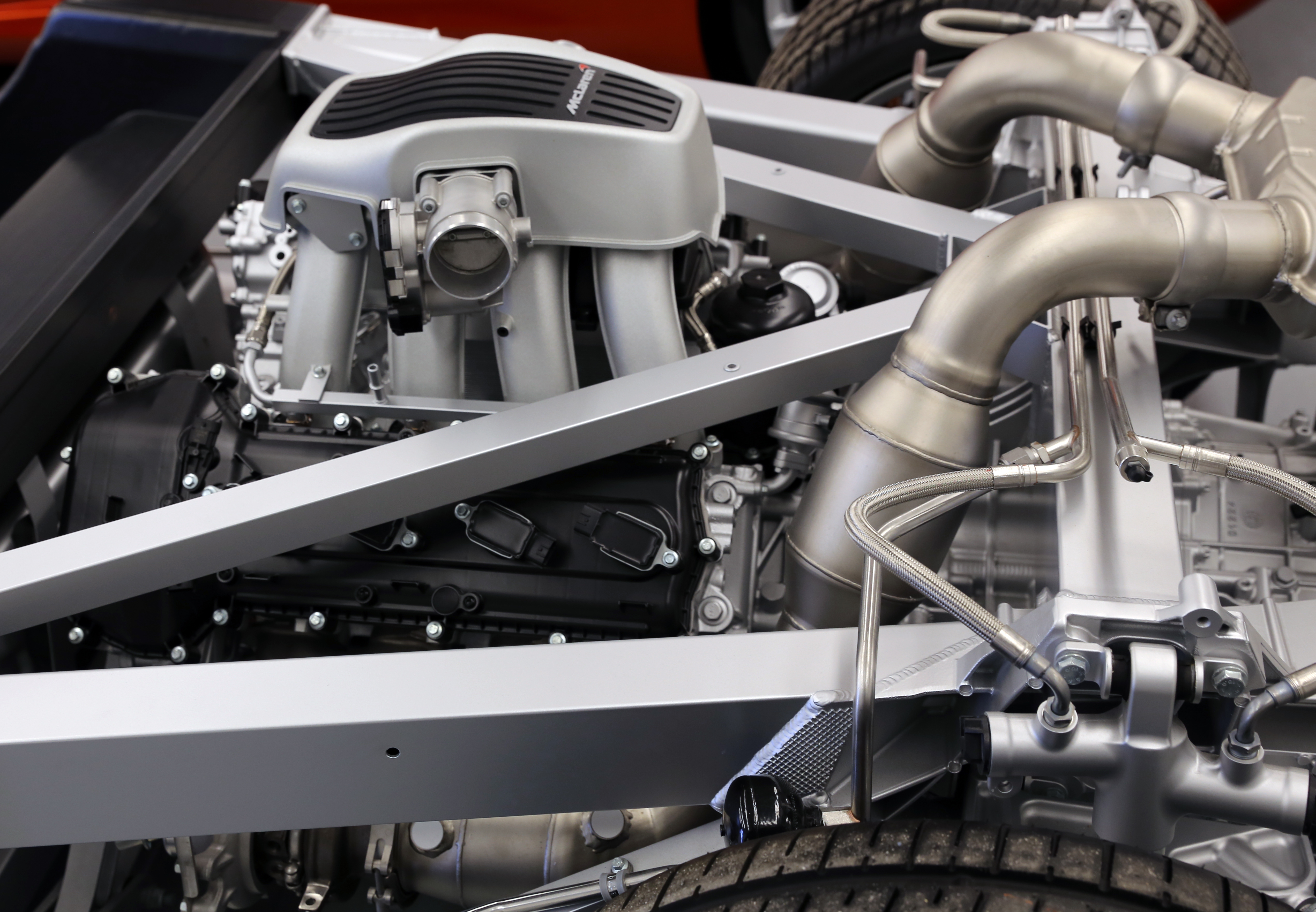 The 3.8 liter McLaren M838T engine in an MP4-12C rolling chassis, at Miller Motorcars in Greenwich, CT.